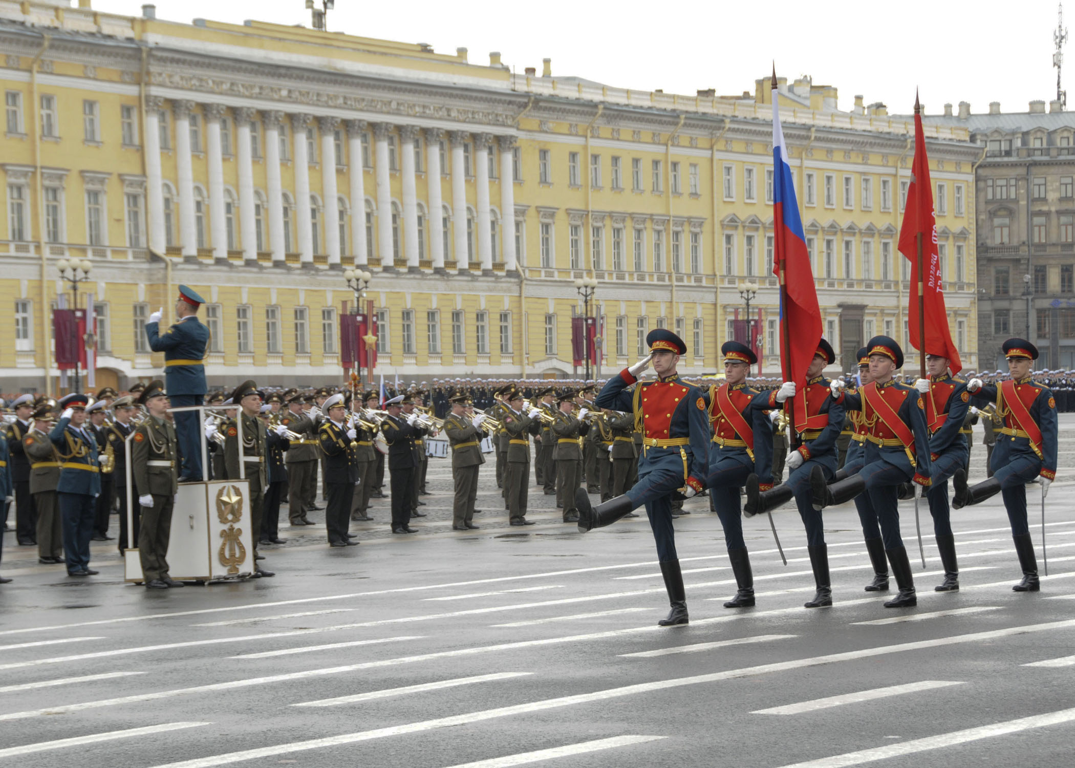 ST. PETERSBURG, Russia (May 10, 2010) A Russian honor guard marches during the opening ceremony of the 65th anniversary of the Victory in Europe Day parade. The Russian minister of defense invited Vice Adm. Harry B. Harris Jr., commander of the U.S. 6th Fleet, and the crew of the guided-missile frigate USS Kauffman (FFG 59) to participate in the celebration. (U.S. Navy photo by Mass Communication Specialist 2nd Class William Pittman/Released)